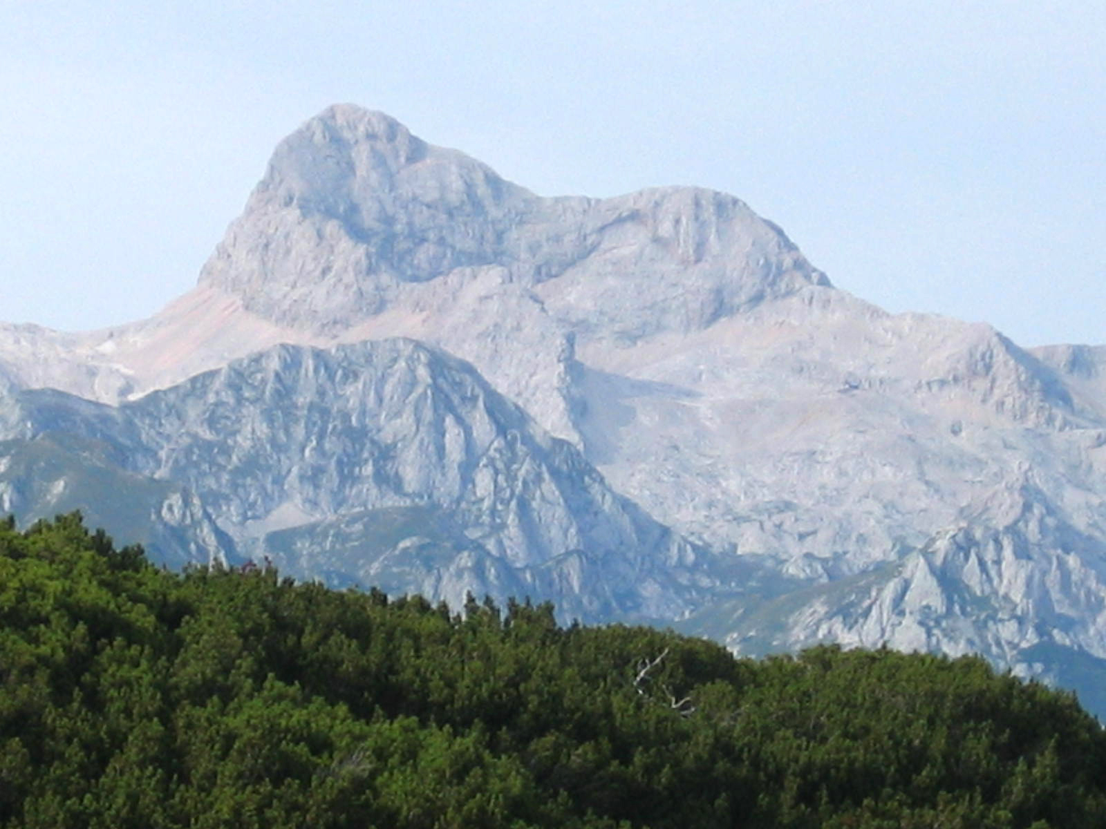 Triglav, highest mountain in Slovenia, as seen from Vogel, ski resort in Julian Alps, Slovenia (summer) photo:Ziga 19:18, 29 December 2006 (UTC)